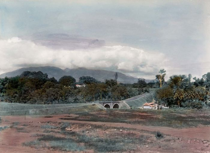 View from Kedong Halang towards the palace of the Governor-General at Buitenzorg